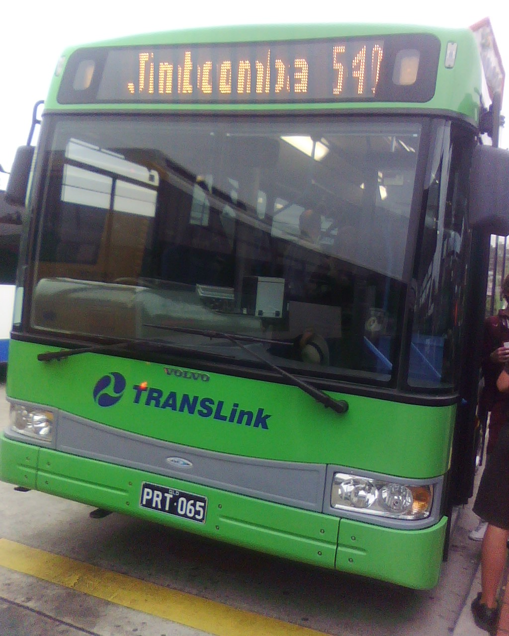 TRANSlink Bustech VST bodied Volvo B12BLE (PRT 065, built 2008) at grand plaza in Brisbane, Australia.